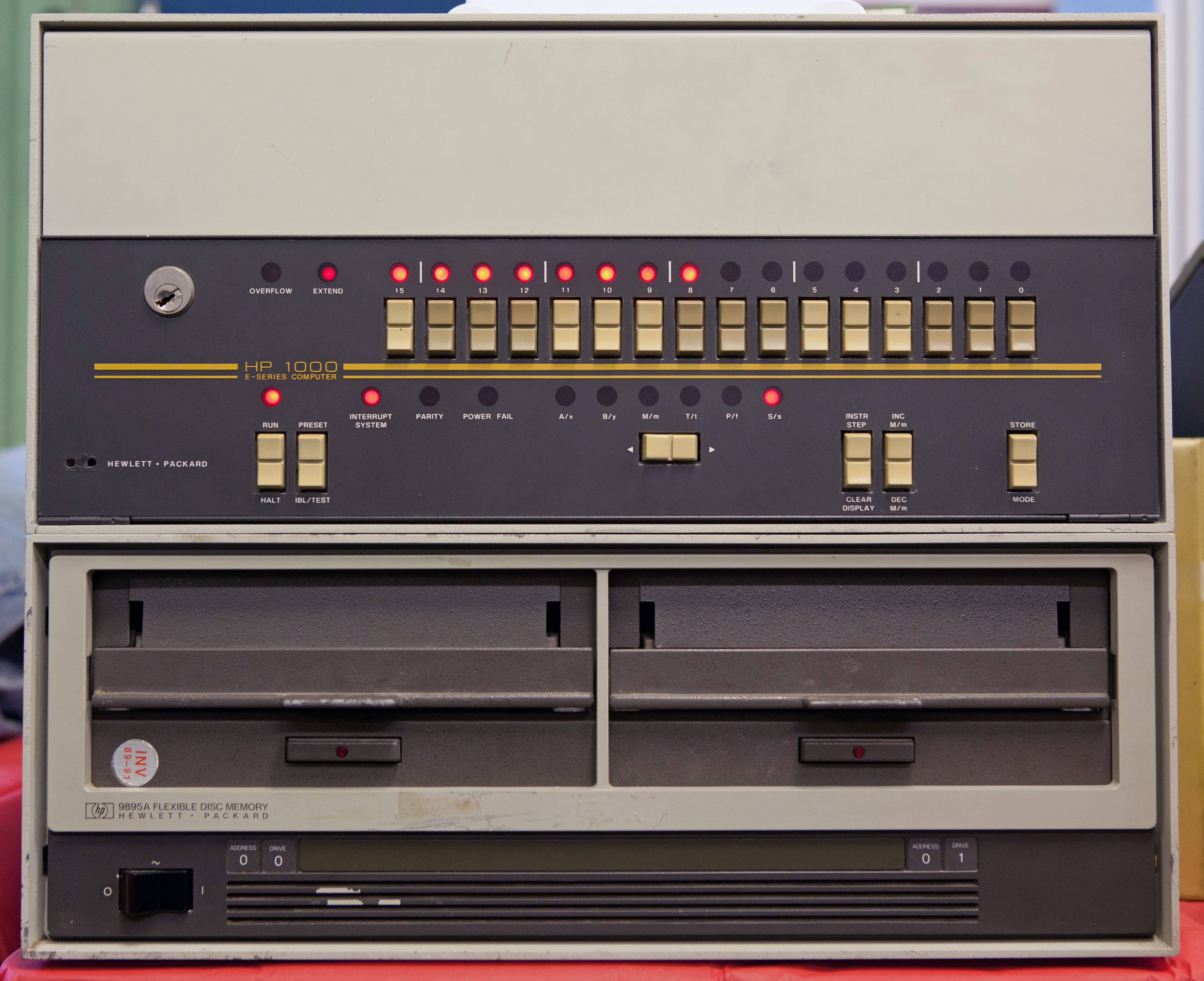 HP 1000 E-Series minicomputer front panel at the 2012 Vintage Computer Festival East.